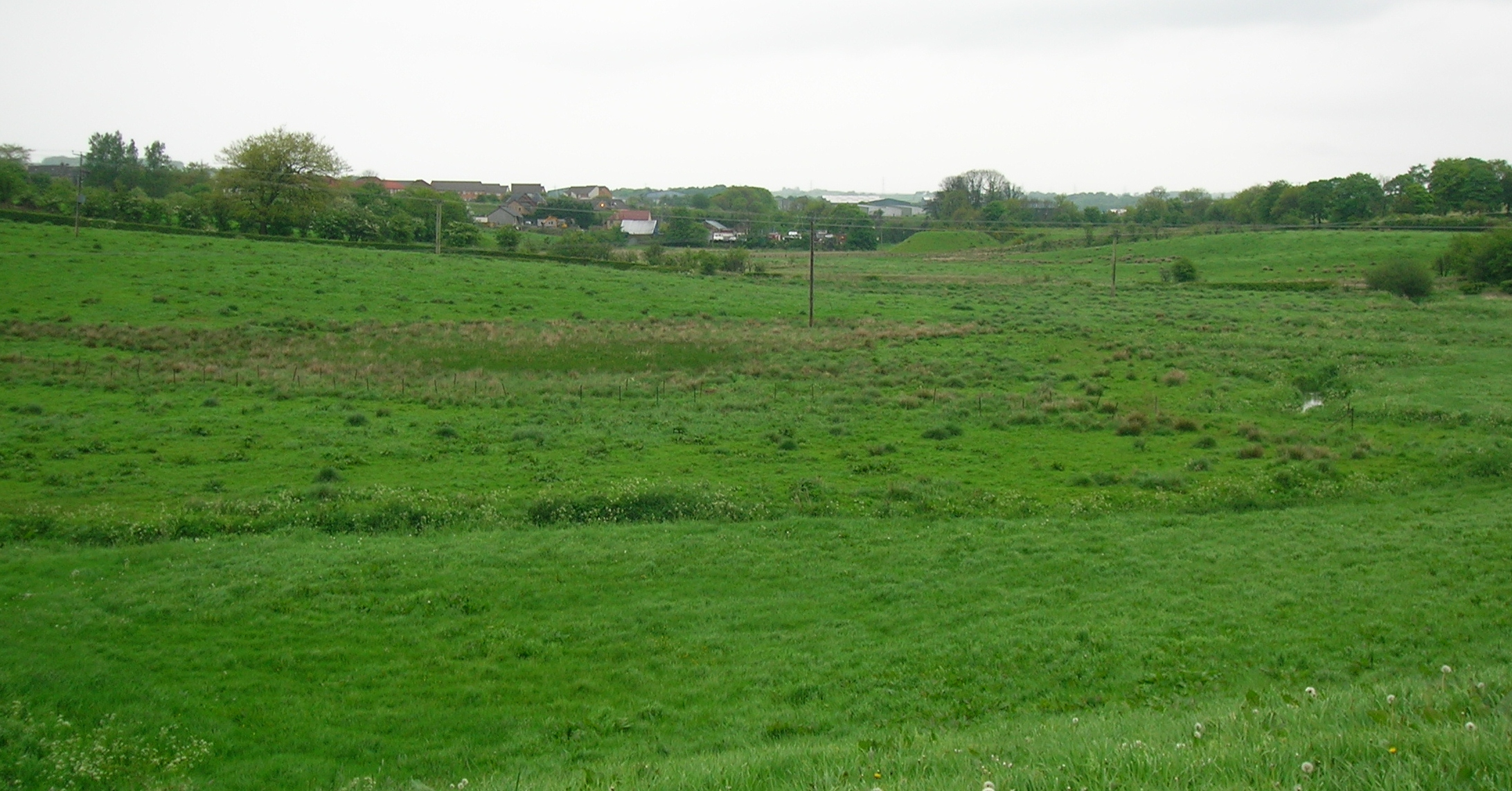 The site of the old Black Loch, used as a Curlin Pond and later infilled